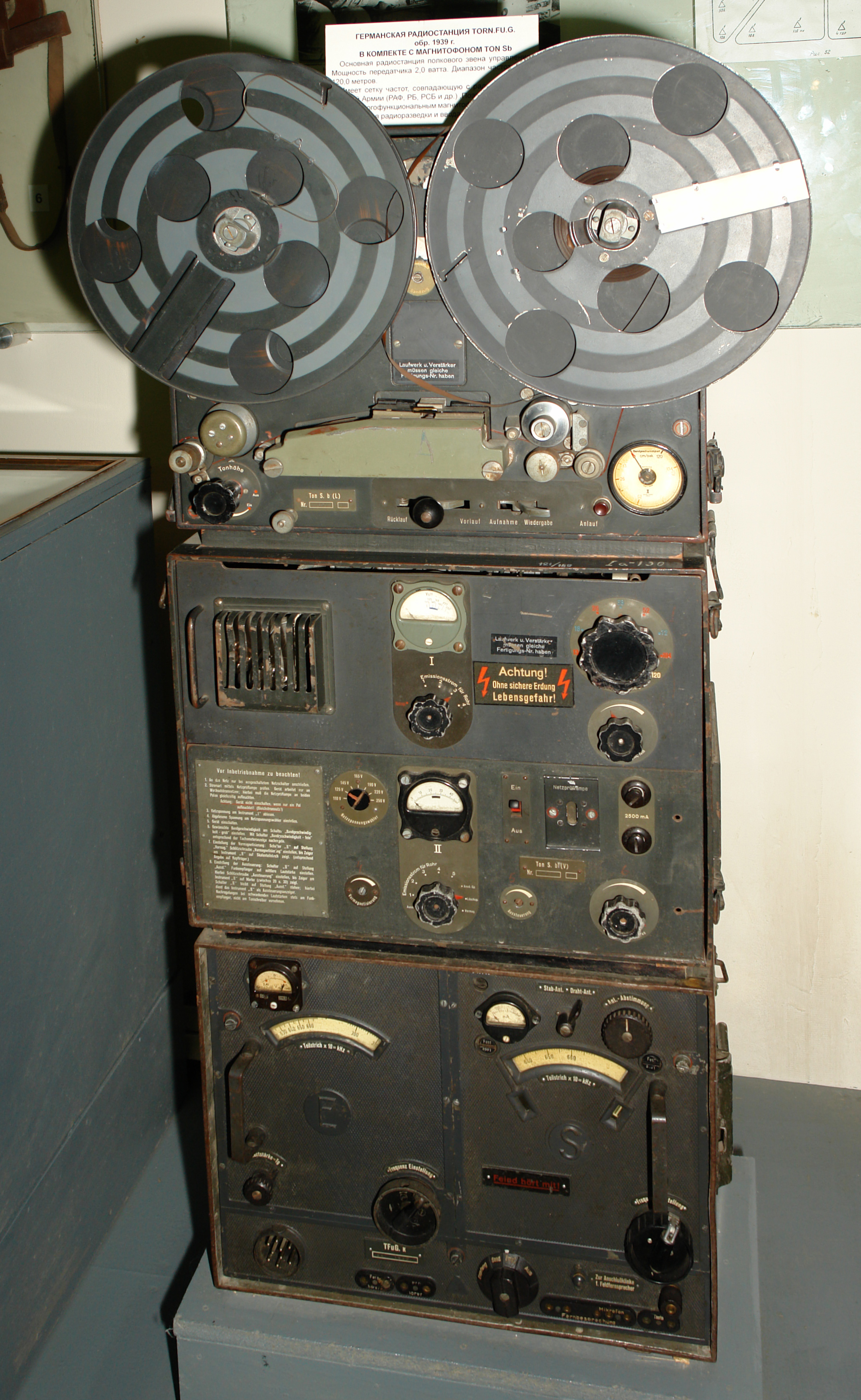 German Wehrmacht portable radio transmitter station, consisting of Tornisterfunkgerät K (TFuG K, "Rucksack transmitter type K")) and tape recorder Tonschreiber B. Circa 1939. This was a basic radio transmitter set of the regimental link of control. Transmitter power 2 watts, frequency band 85 - 120.0 meters (2.5 to 3.5 MHz). Its frequency range corresponded with Red Army radio sets. (RAF, RB, RSB etc.) Therefore in combination with the multifunction tape unit it was suited for radio intelligence and spreading of disinformation. Military History Museum of Artillery, Engineers and Signal Corps, Saint Petersburg.